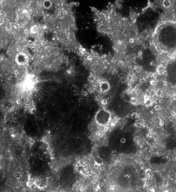 Mare Spumans, meaning the "foaming sea", is located just south of Mare Undarum on the near side. It is one of the many elevated lakes contained in the Crisium basin, surrounding Mare Crisium. The surrounding basin material is of the Nectarian epoch, while the mare basalt being of the Upper Imbrian epoch. A part of Mare Undarum can be seen at the top of the photo. The crater Dubyago can be seen at the top right of the photo as the circular feature with a white ring around it. You can clearly make out the crater Apollonius W on the western rim of the mare. The crater is white with a well defined ray system surrounding.